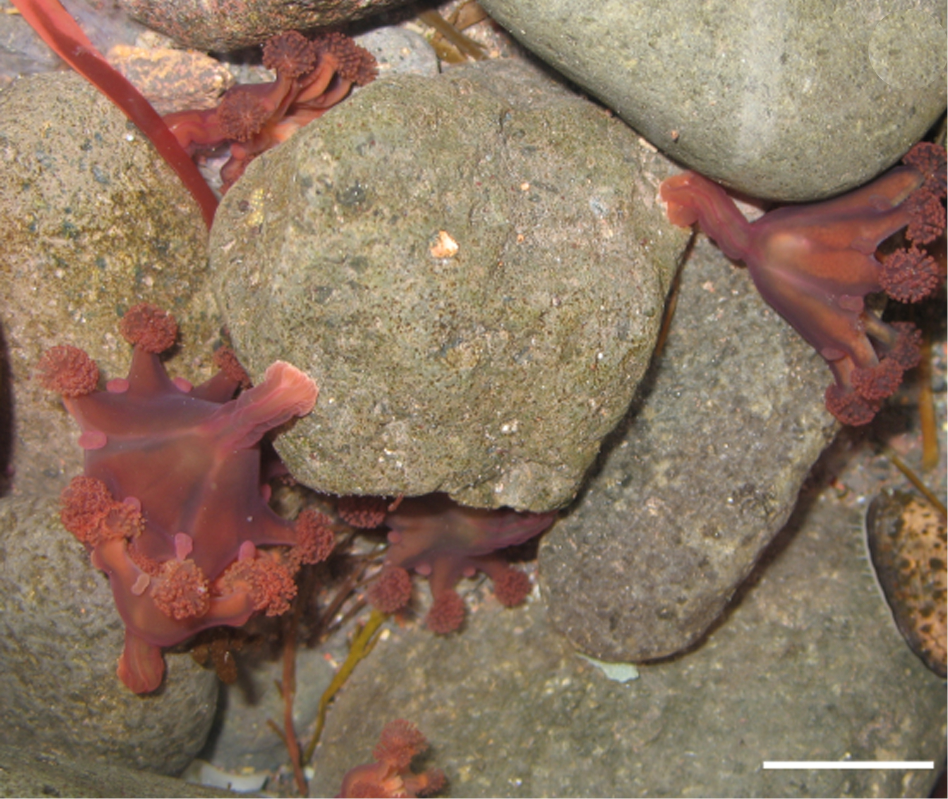 Living specimens of Haliclystus antarcticus in the field. Side view, attached to rock. Scale bar 1.2 cm.